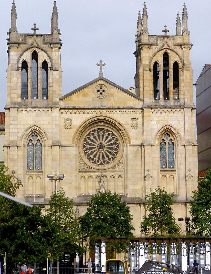 Iglesia de San Lorenzo, Gijón